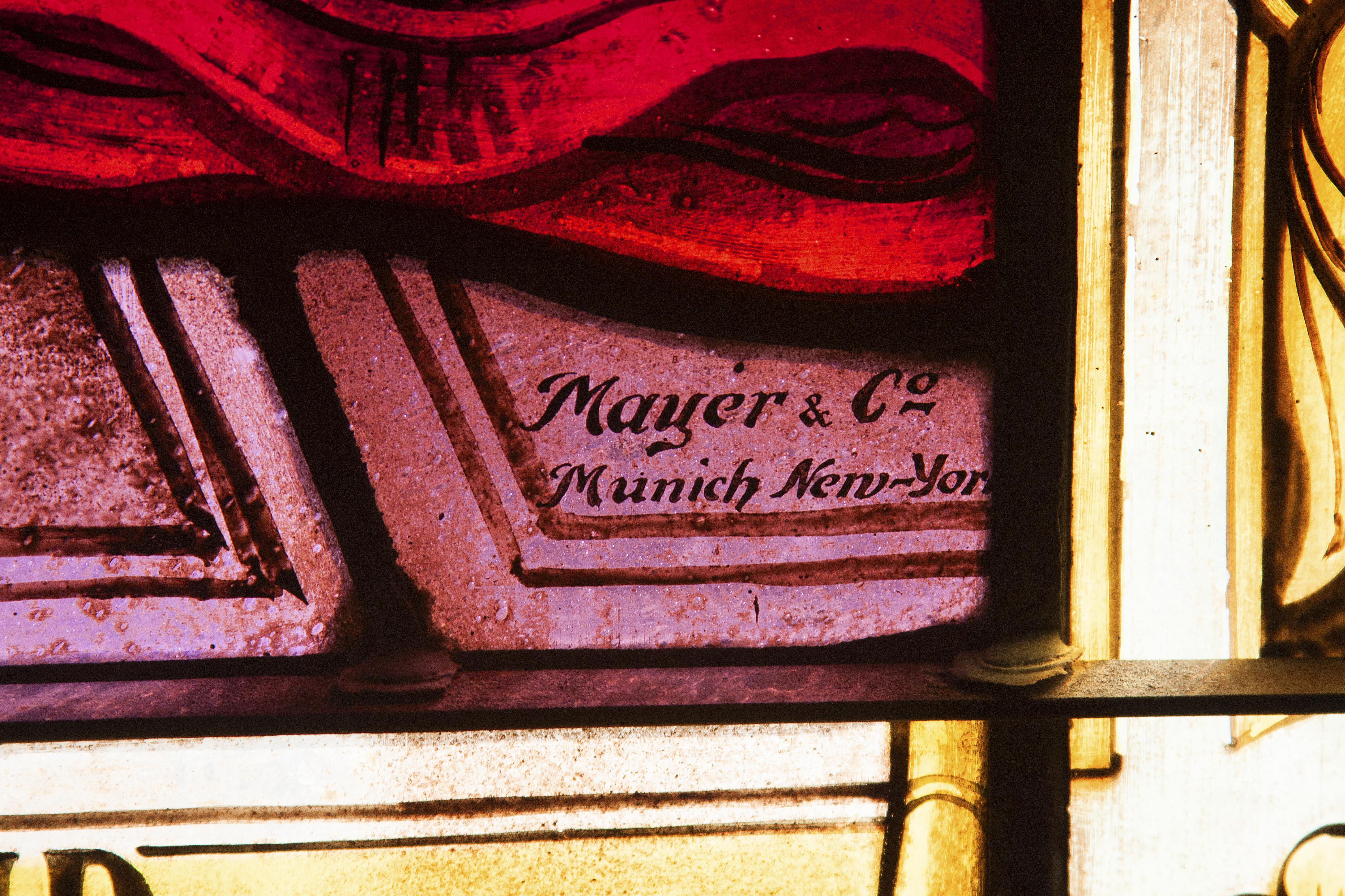 Close up shot of the Mayer & Co. maker's mark on a stained glass window in St. Edward Catholic Church in Palm Beach, Florida. Image shows the text "Mayer & Co. Munich New York".